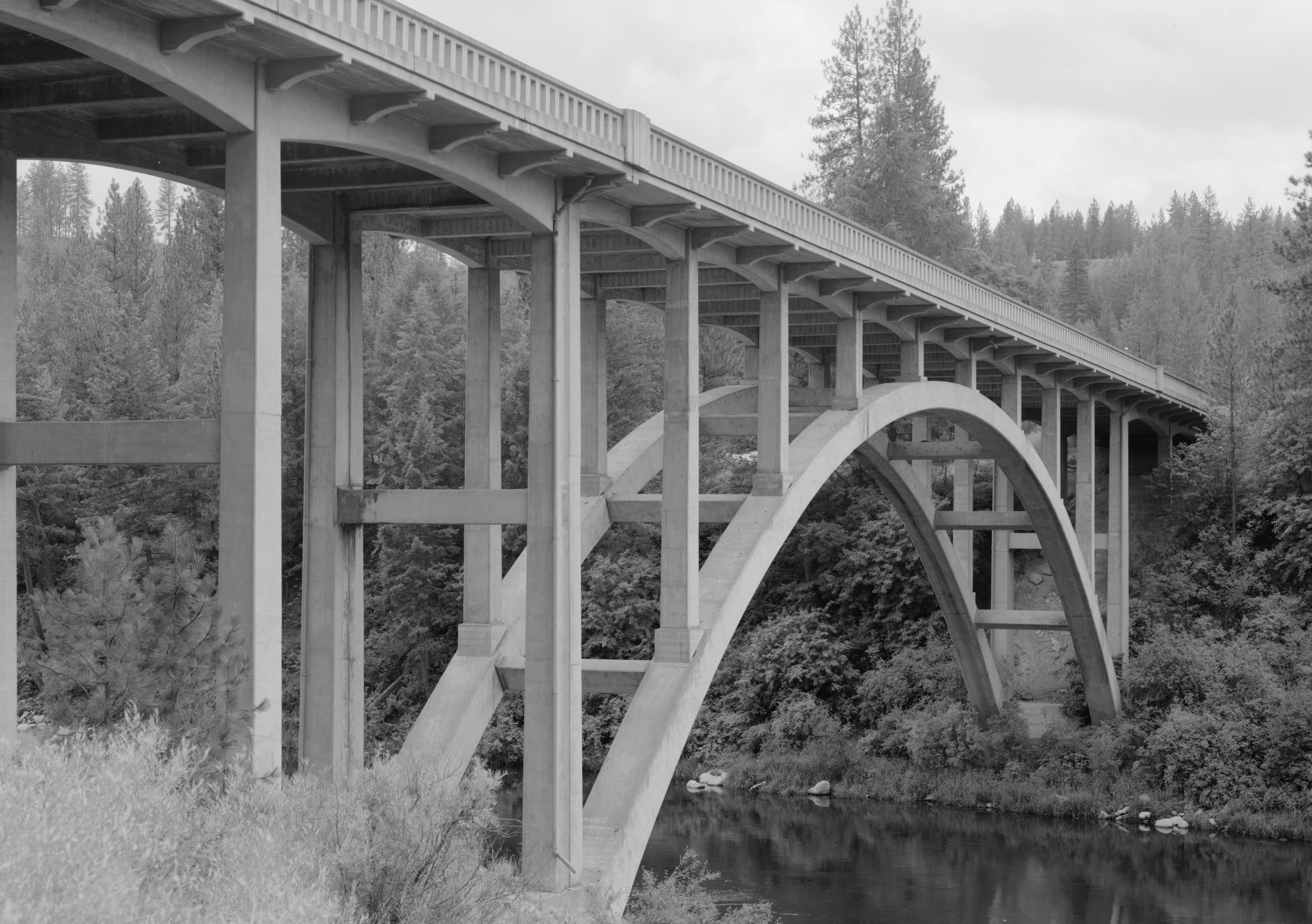 The Spokane River Bridge at Long Lake Dam, near Rearden, Washington.